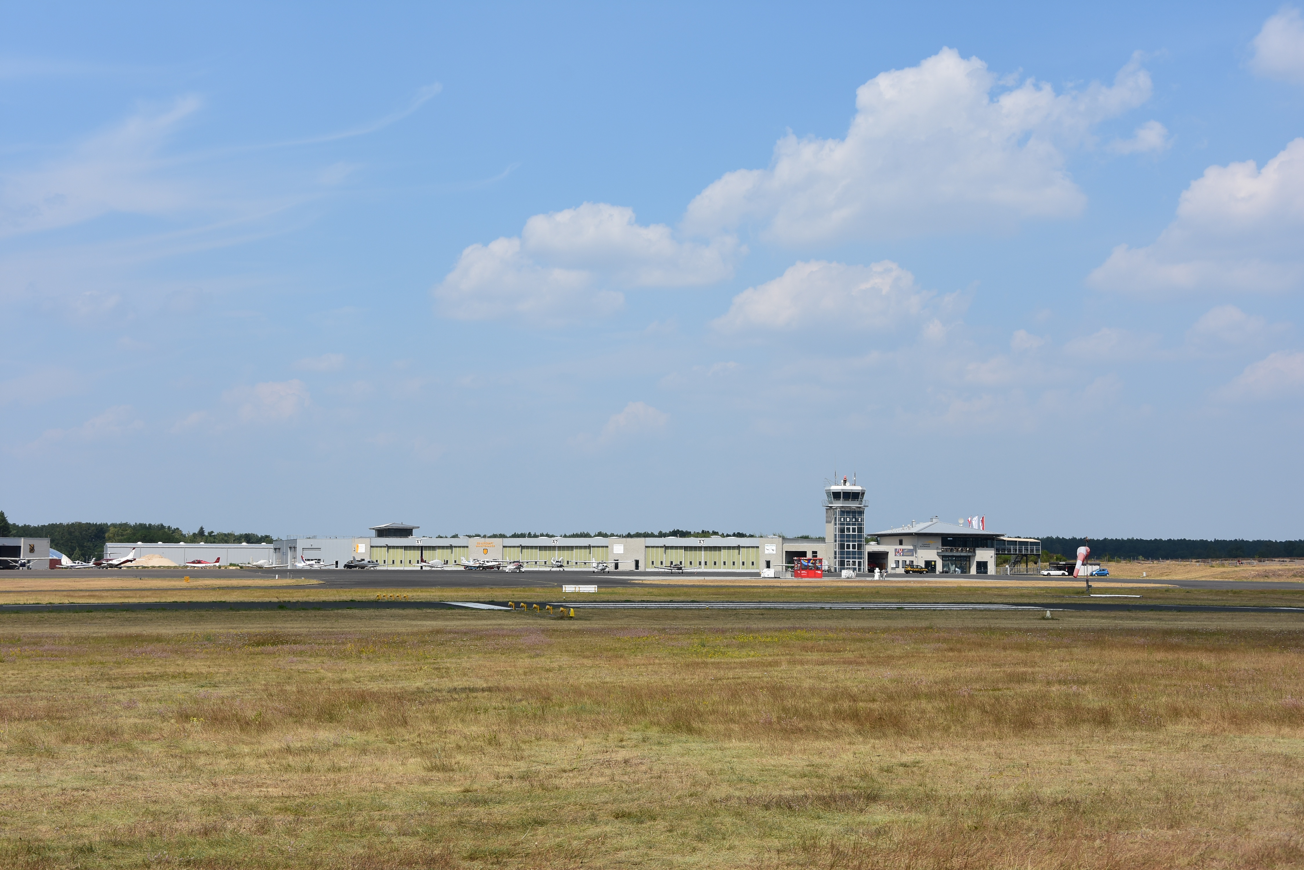 Apron with tower and main building of the small Airport Schönhagen (QXH, EDAZ)